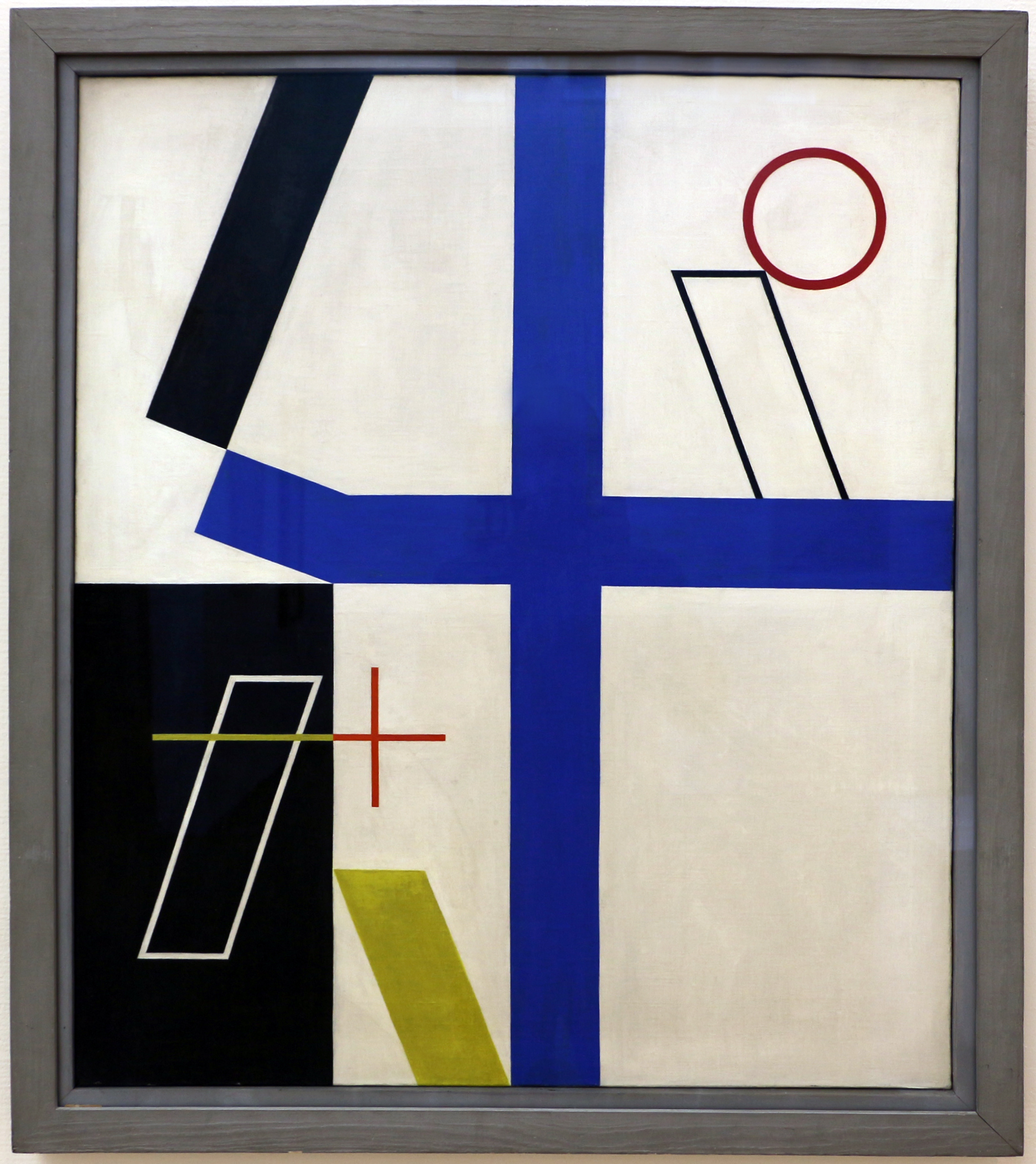 Sophie Taeuber-Arp, Quatre espaces à croix brisée, 1932. Painting in the Musée national d'art moderne